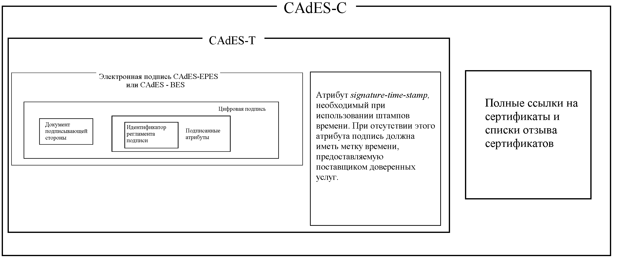 CAdES-C Illustration